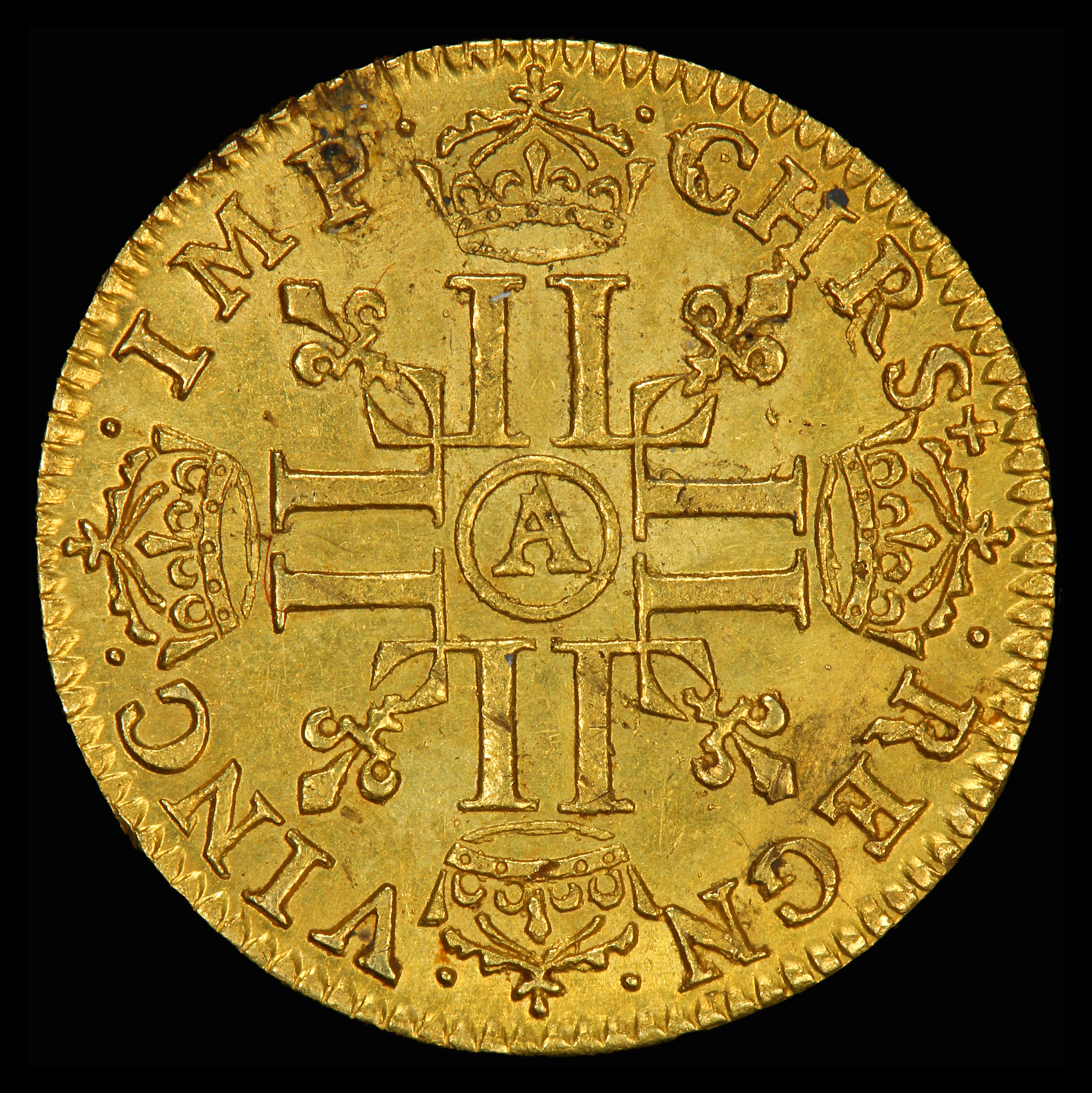 France 1643-A Half Louis d'Or (rev), depicting Louis XIII of France